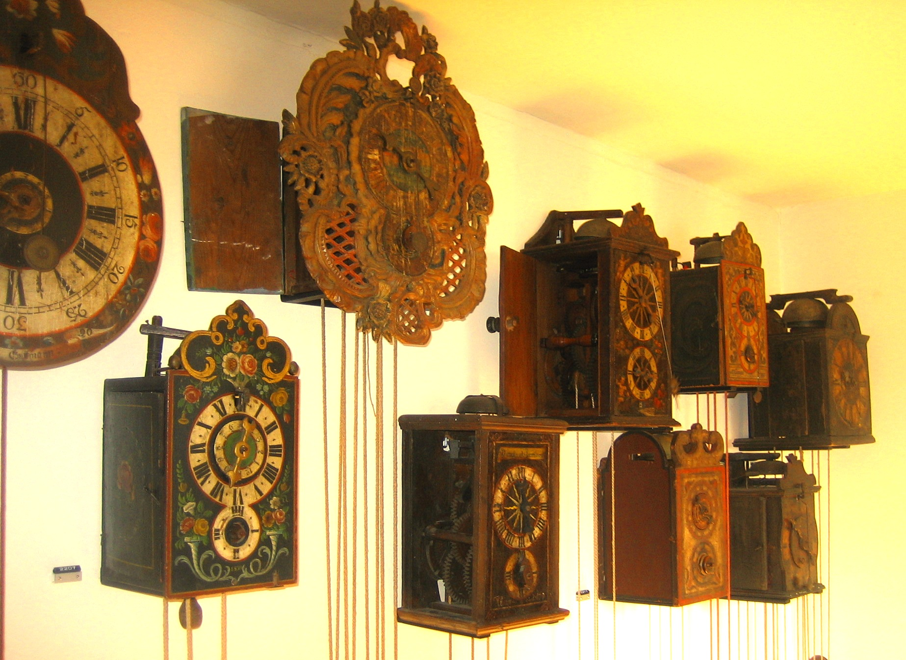 An image of several wooden movement clocks at the Uhrenmuseum Roeslistrasse in Zuerich Switzerland